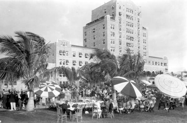 Japanese tea garden at the Flamingo Hotel - Miami Beach, Florida in 1922.